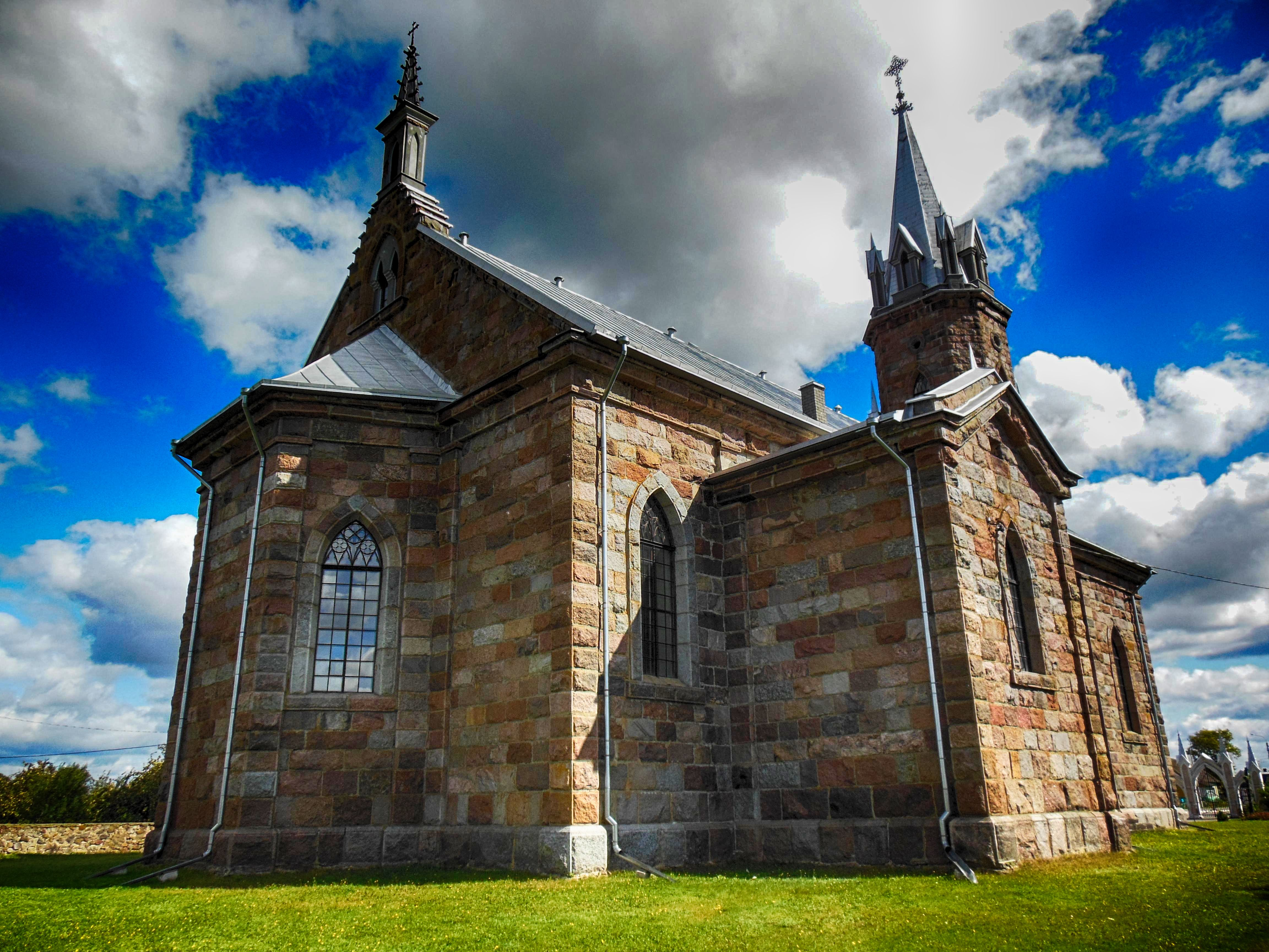 Беларуская (тарашкевіца): Казіміраўскі касьцёл. в. Ліпнішкі This is a photo of Belarusian heritage monument. Reference number: 413Г000301 ( WLM)